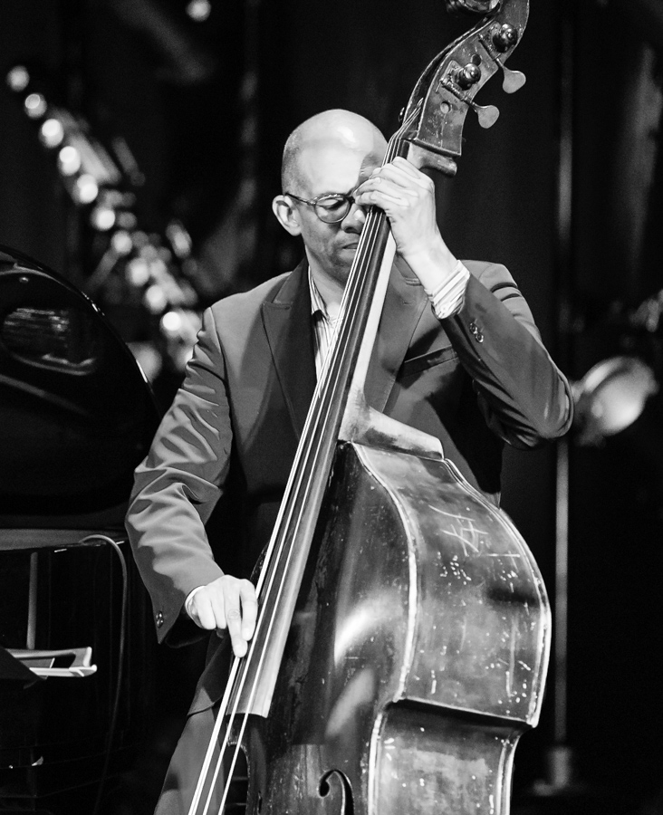 Darryl Hall in a concert with Archie Shepp in Kongsberg Musikkteater. The concert was part of Kongsberg Jazzfestival and took place on 05. July 2019 in Kongsberg. Lineup:Archie Shepp (saxophone)Carl-Henri Morisset (grand piano)Darryl Hall (double bass)Hamid Drake (drums)Olivier Miconi (trumpet)Marion Rampal (spoken words)